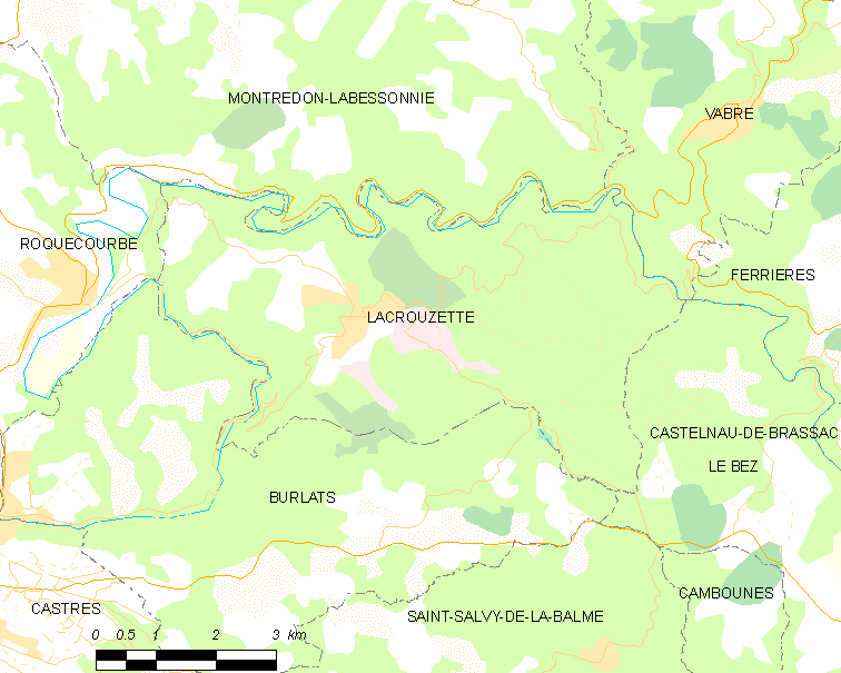 Map commune FR insee code 81128.png - Lacrouzette